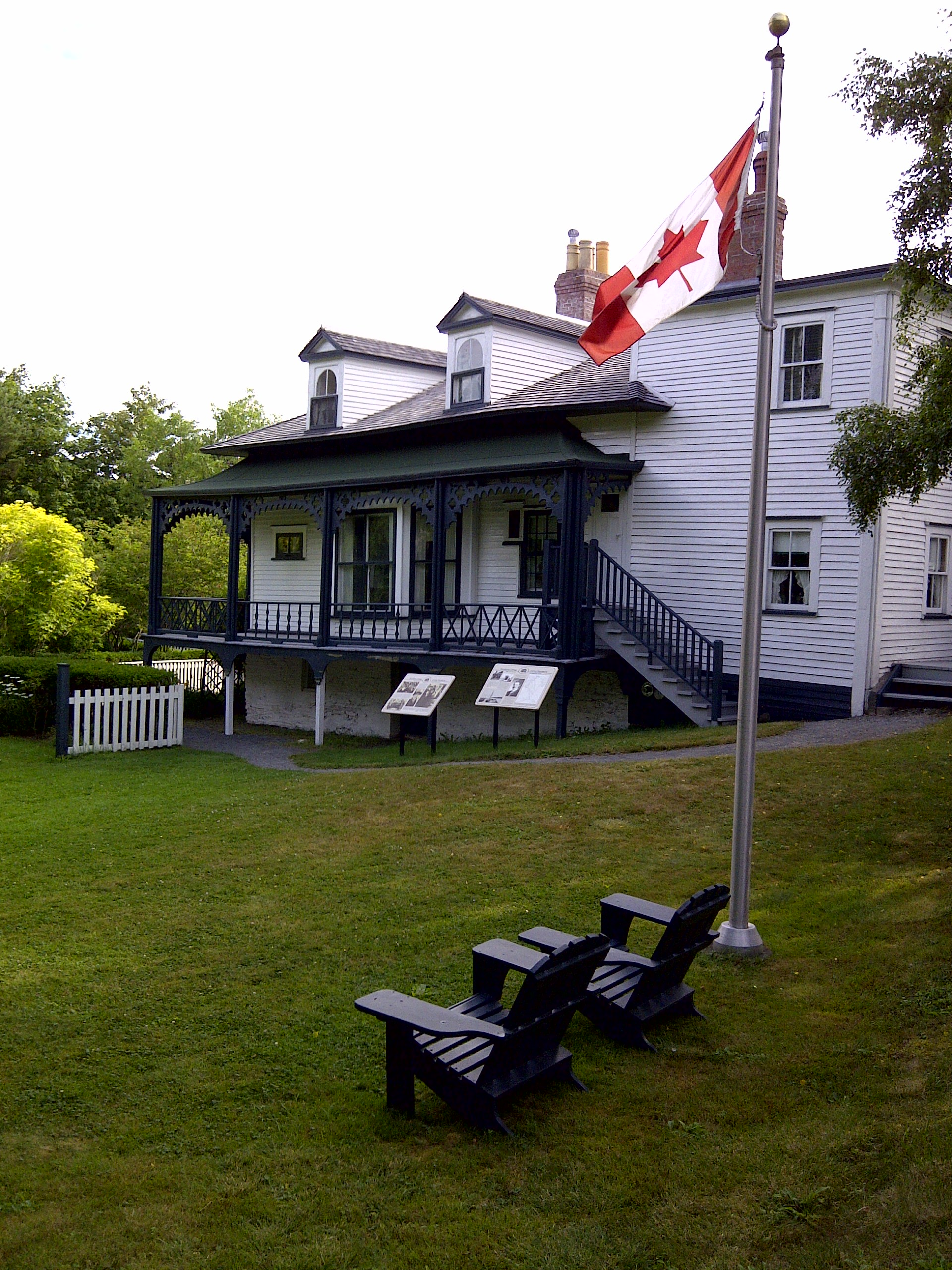 Hawthorne Cottage in Brigus, Newfoundland and Labrador, Canada.